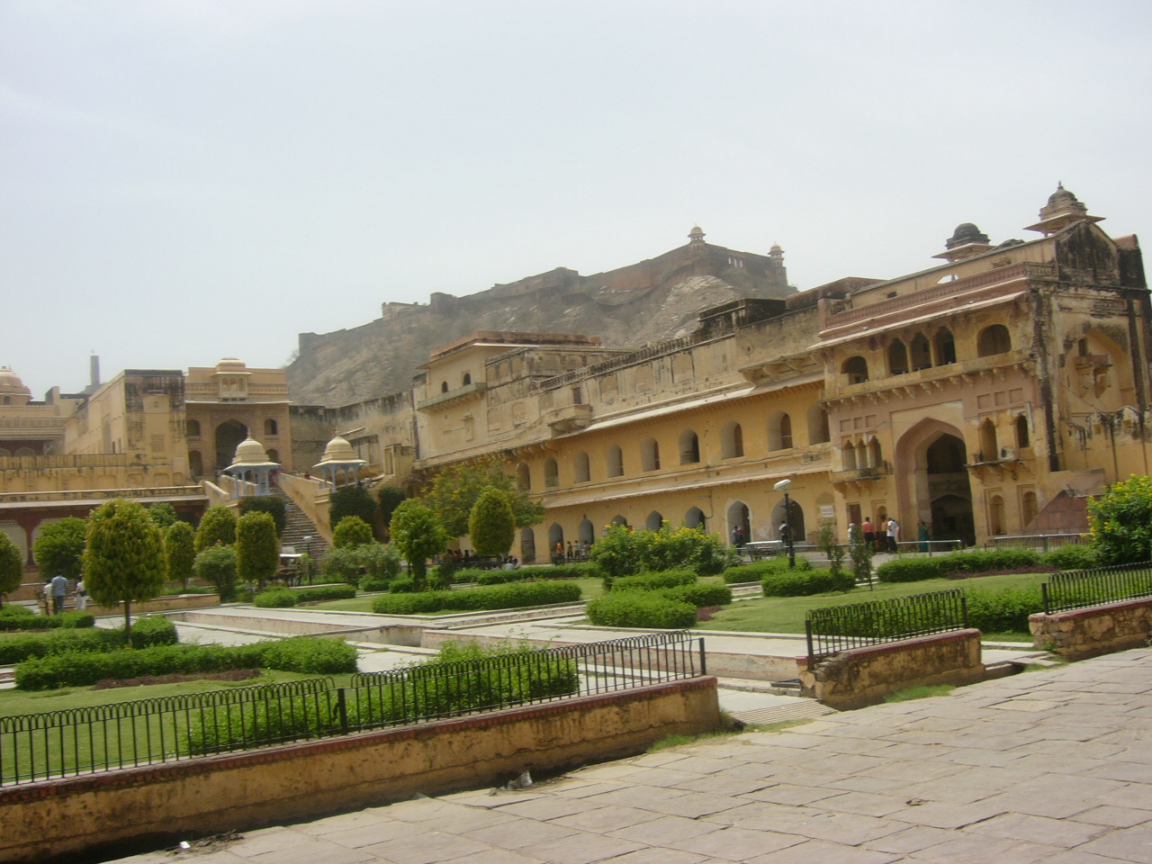 Jaleb Chowk of Amber Fort Jaipur Rajasthan India